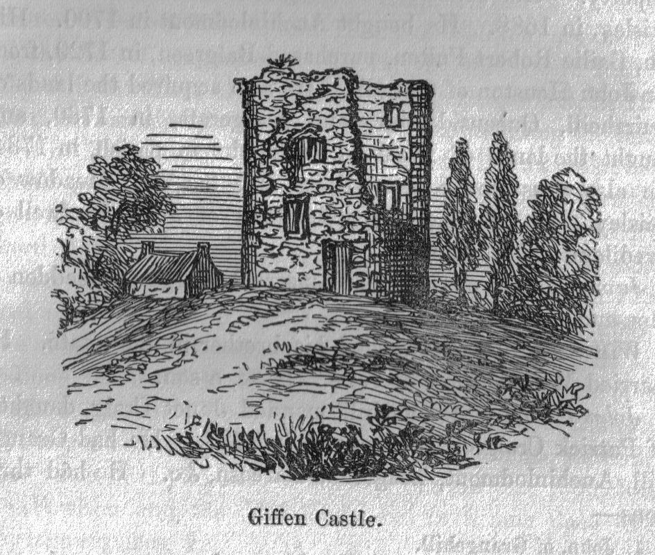 Giffen Castle in the 1860s, Beith, North Ayrshire, Scotland. Rosser 09:34, 26 July 2007 (UTC) From The History of the Counties of Ayr and Wigton by James Paterson. 1866.